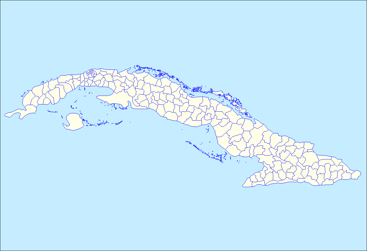 Map of the municipalities of Cuba. Created by Rarelibra 15:26, 11 April 2007 (UTC) for public domain use, using MapInfo Professional v8.5 and various mapping resources.